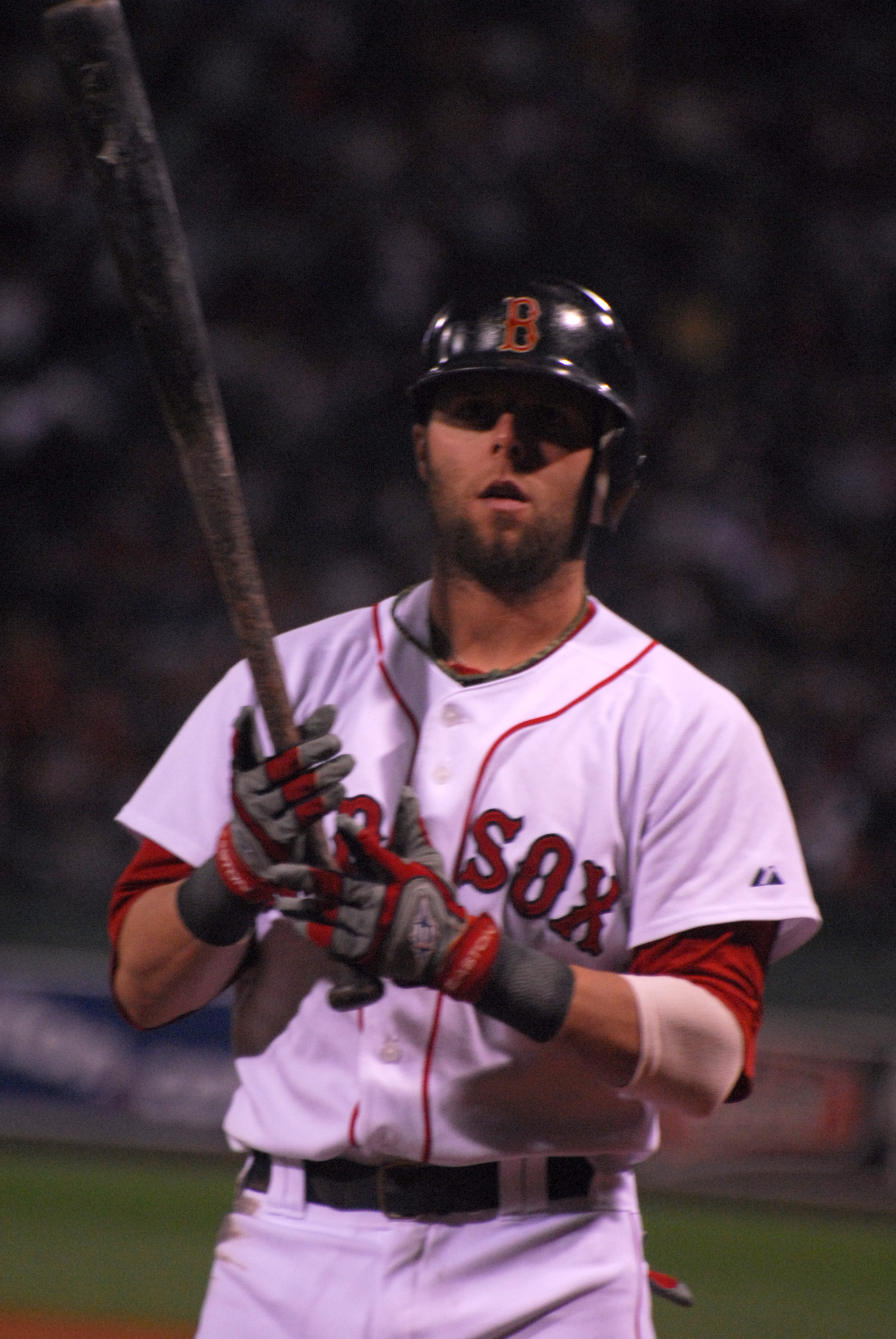 Dustin Pedroia of the Boston Red Sox on deck in Fenway Park in 2008